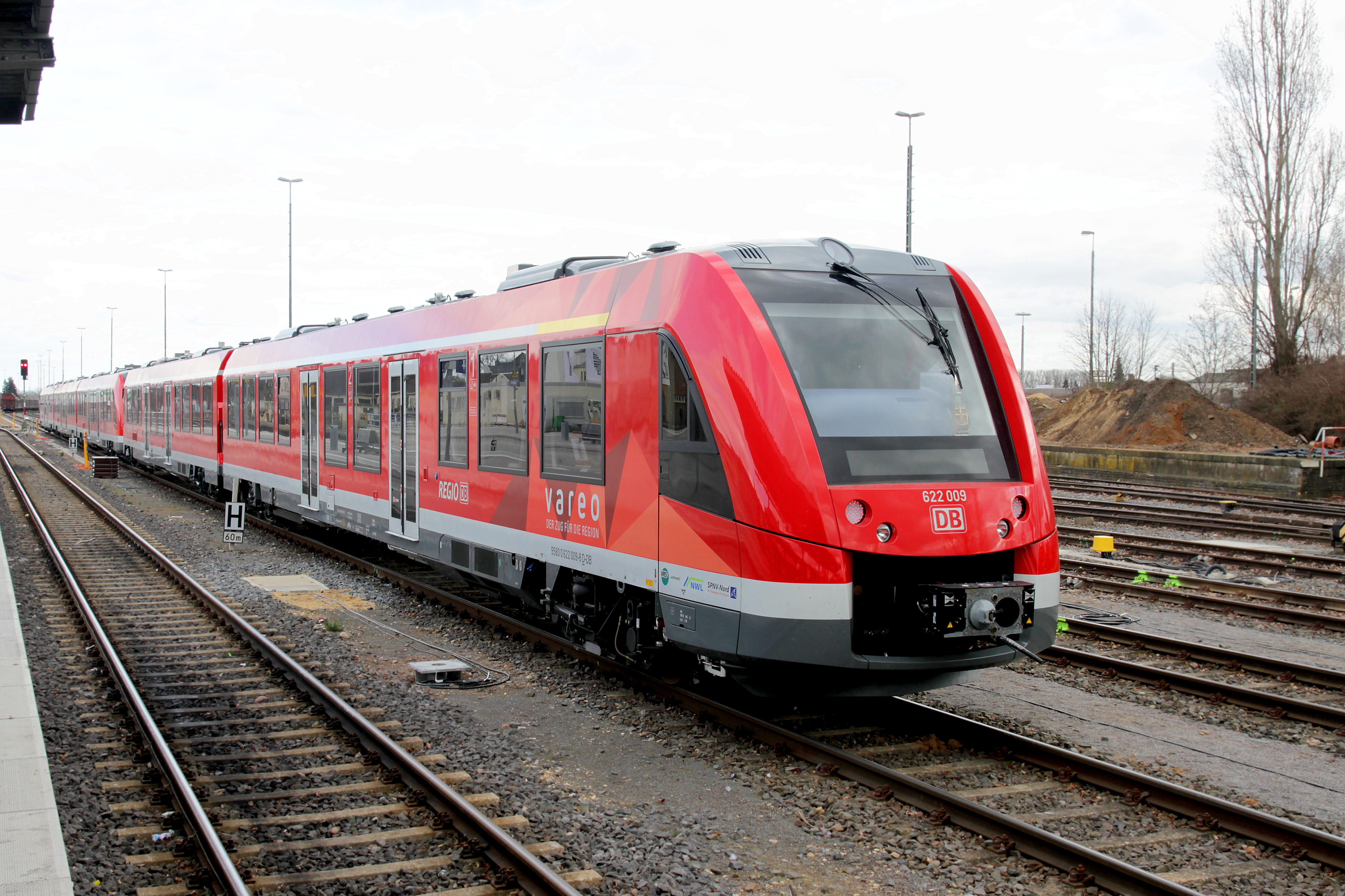 Brand new LINT 54 unit for drivers' training in Euskirchen